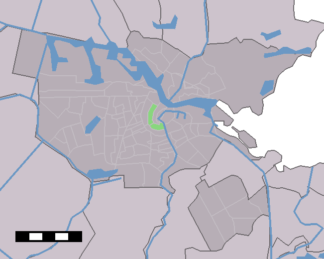 Location of neighbourhoods/districts in Amsterdam